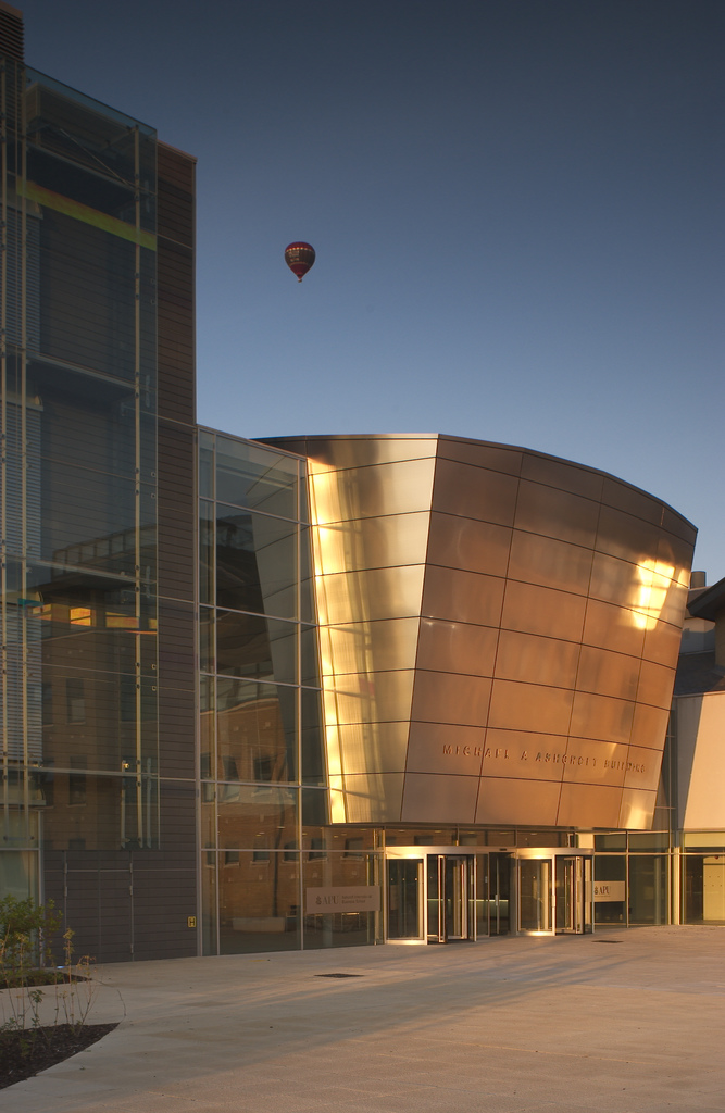 Anglia Ruskin University